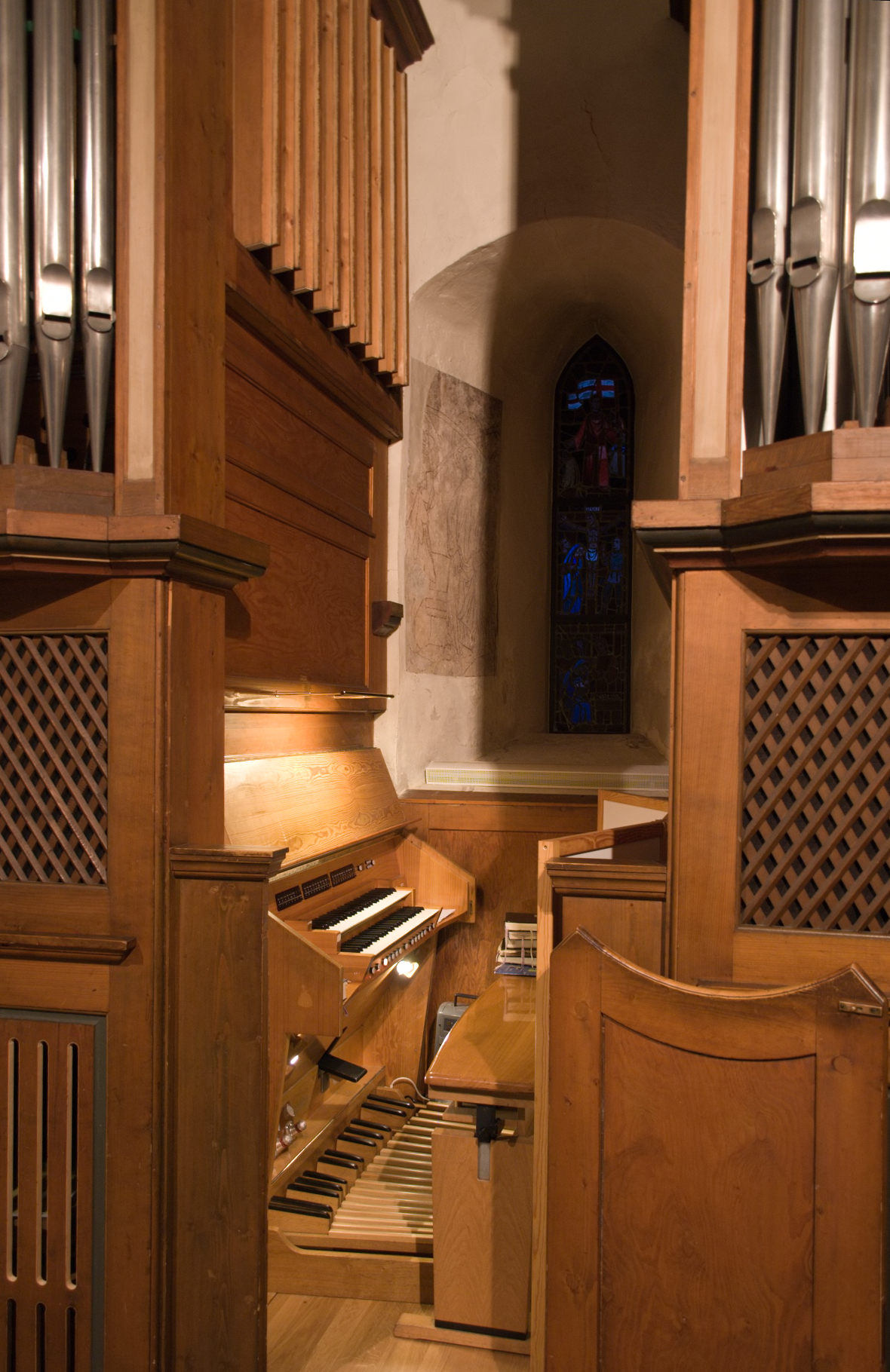 Detail view with console of the pipe organ in St. Oswald church, Stuttgart-Weilimdorf, Germany